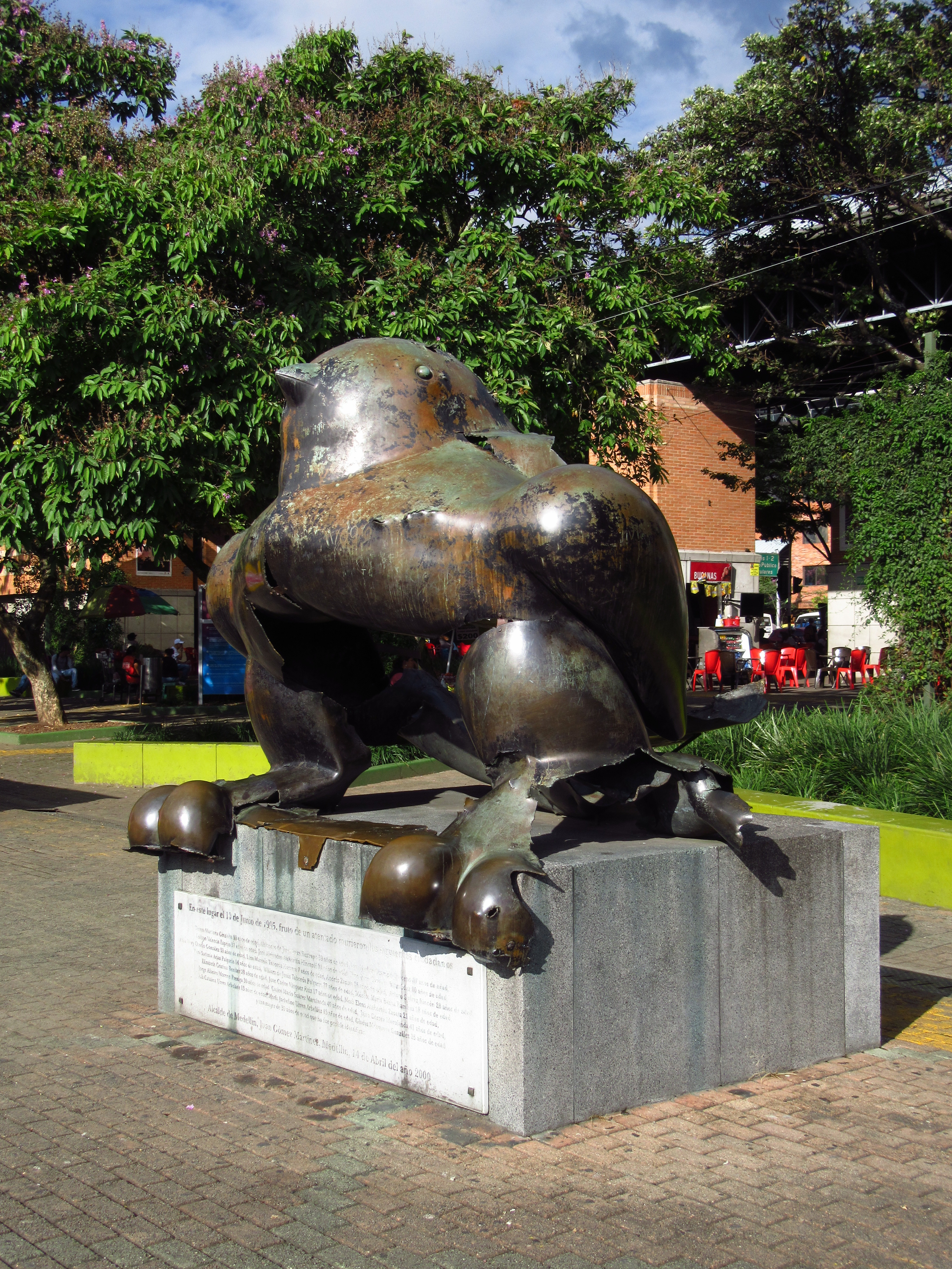 Medellín